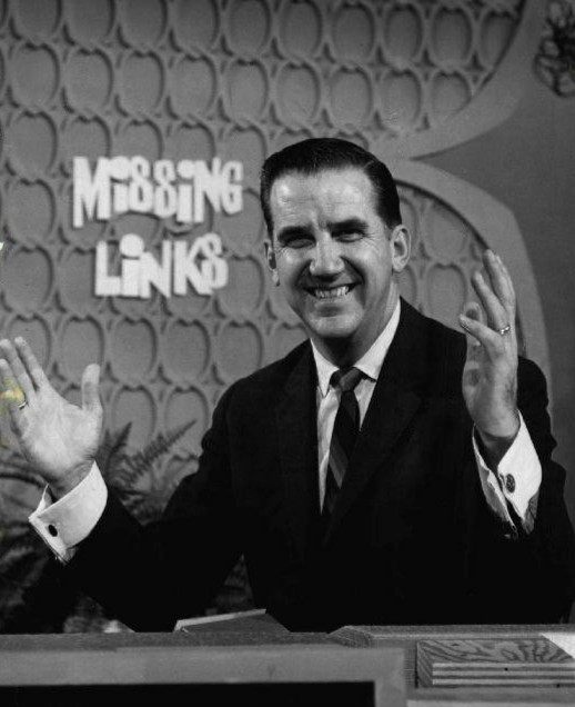 Photo of Ed McMahon as host of the television game show Missing Links.